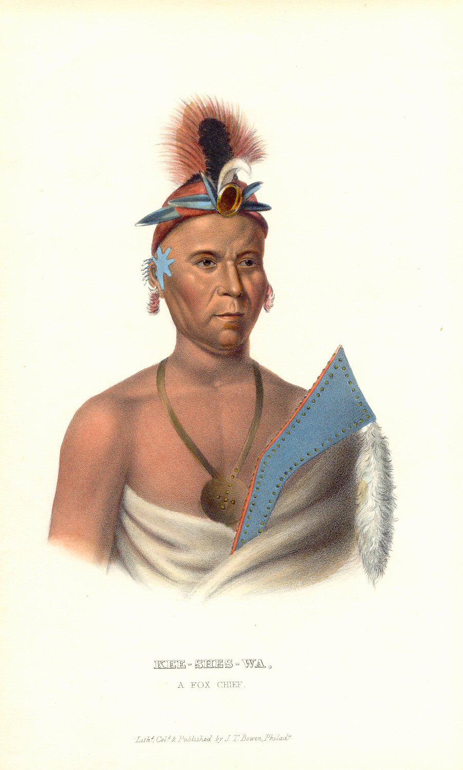 Kee-shes-wa, A Fox Chief, painted by Charles Bird King Lithographed, colored and published ca. 1836-44 by J.T. Bowen, Philadelphia. SI.1990.007 H.10 1/4" X W.6 3/8" (octavo)